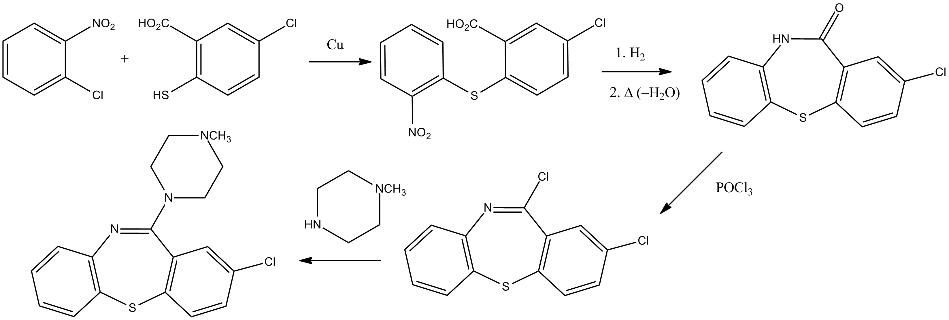 Clothiapine_production